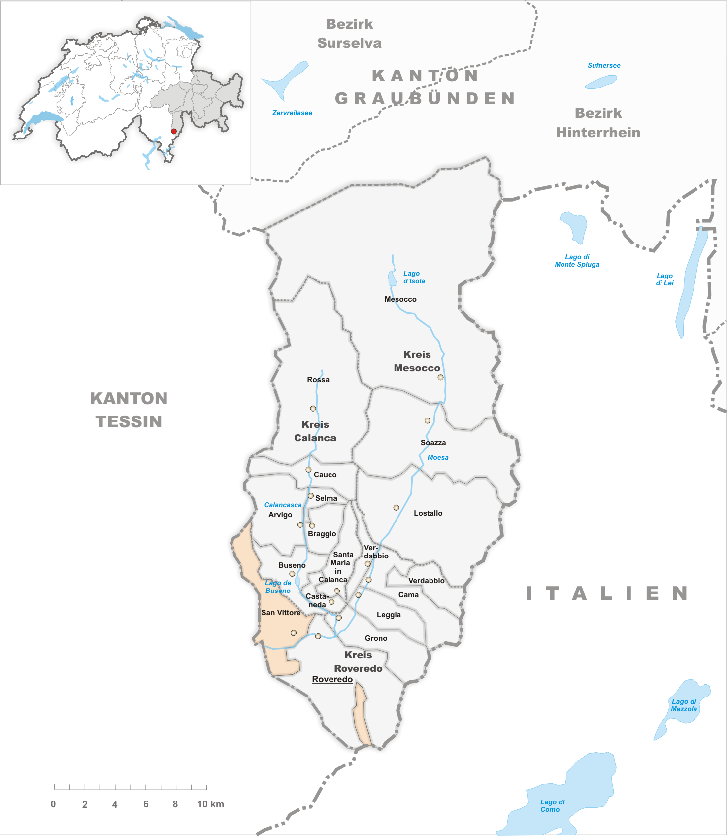 Municipality San Vittore